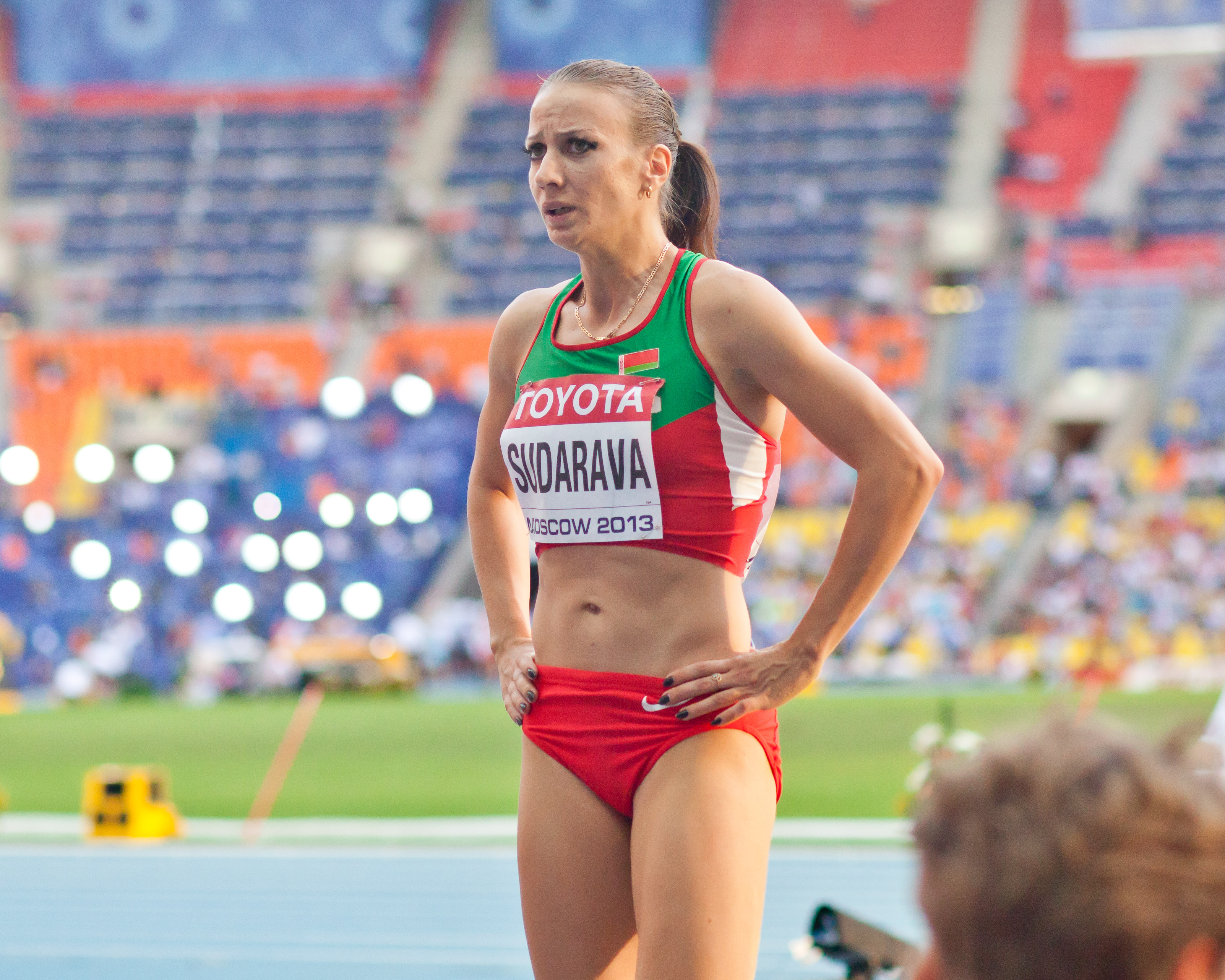 Volha Sudarava during 2013 World Championships in Athletics in Moscow.